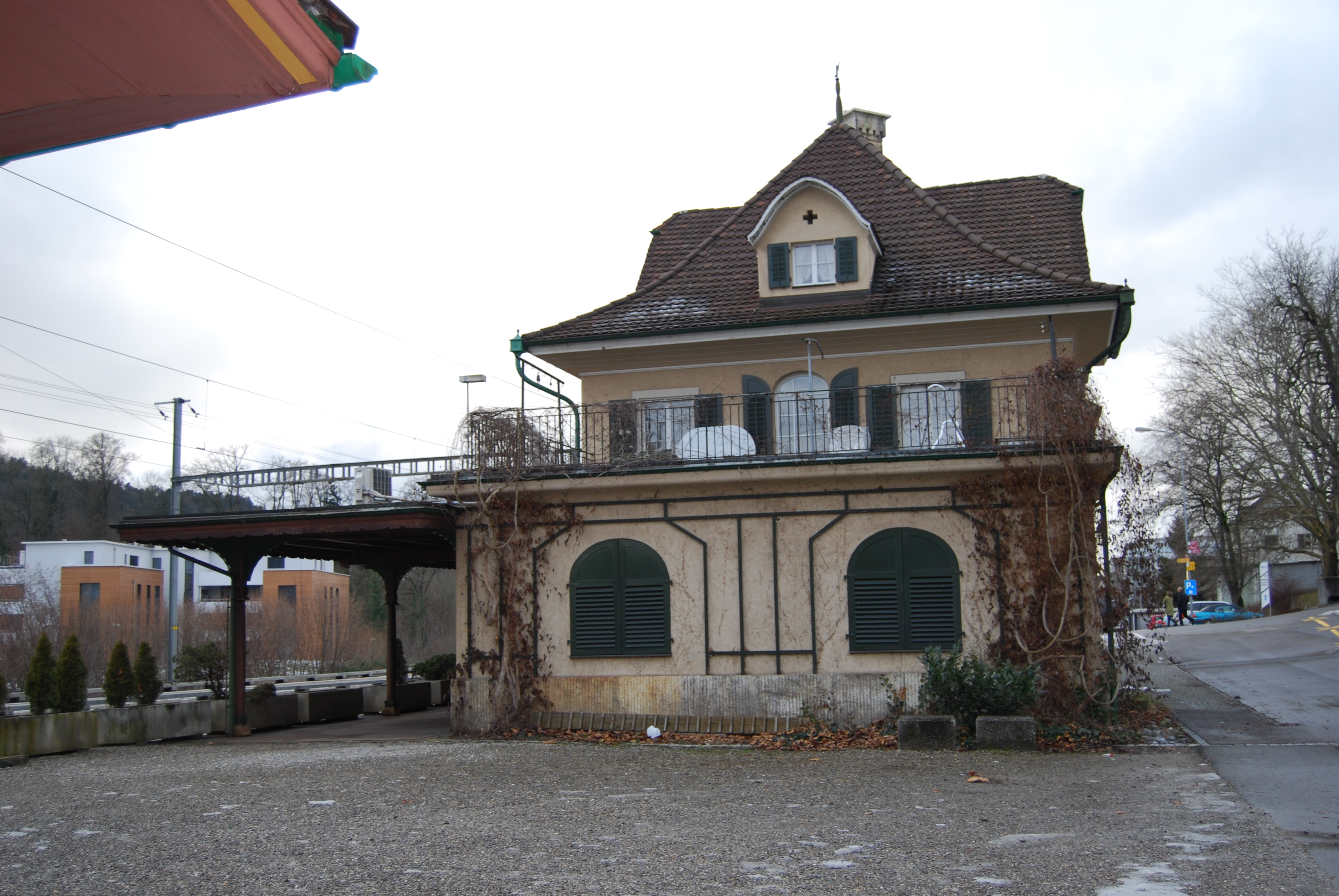 Train station of Aadorf, canton of Thurgovia, SwitzerlandEsperanto: Stacidomo de Aadorf, Kantono Turgovio, Svislando